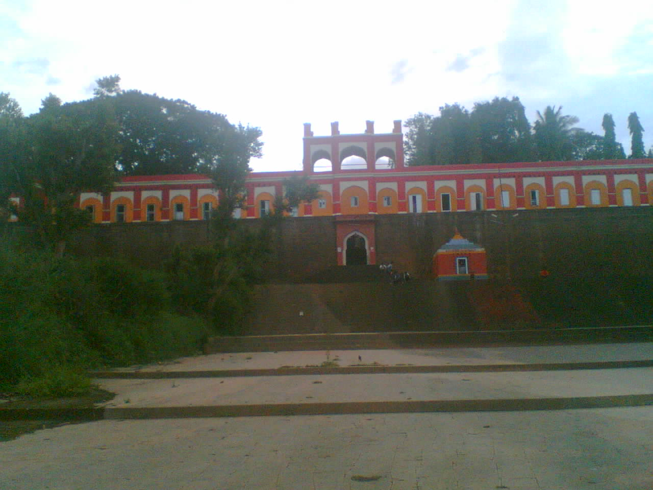 कृष्णा नदीच्या तीरावर असणारा कुरुंदवाडचा घाट.